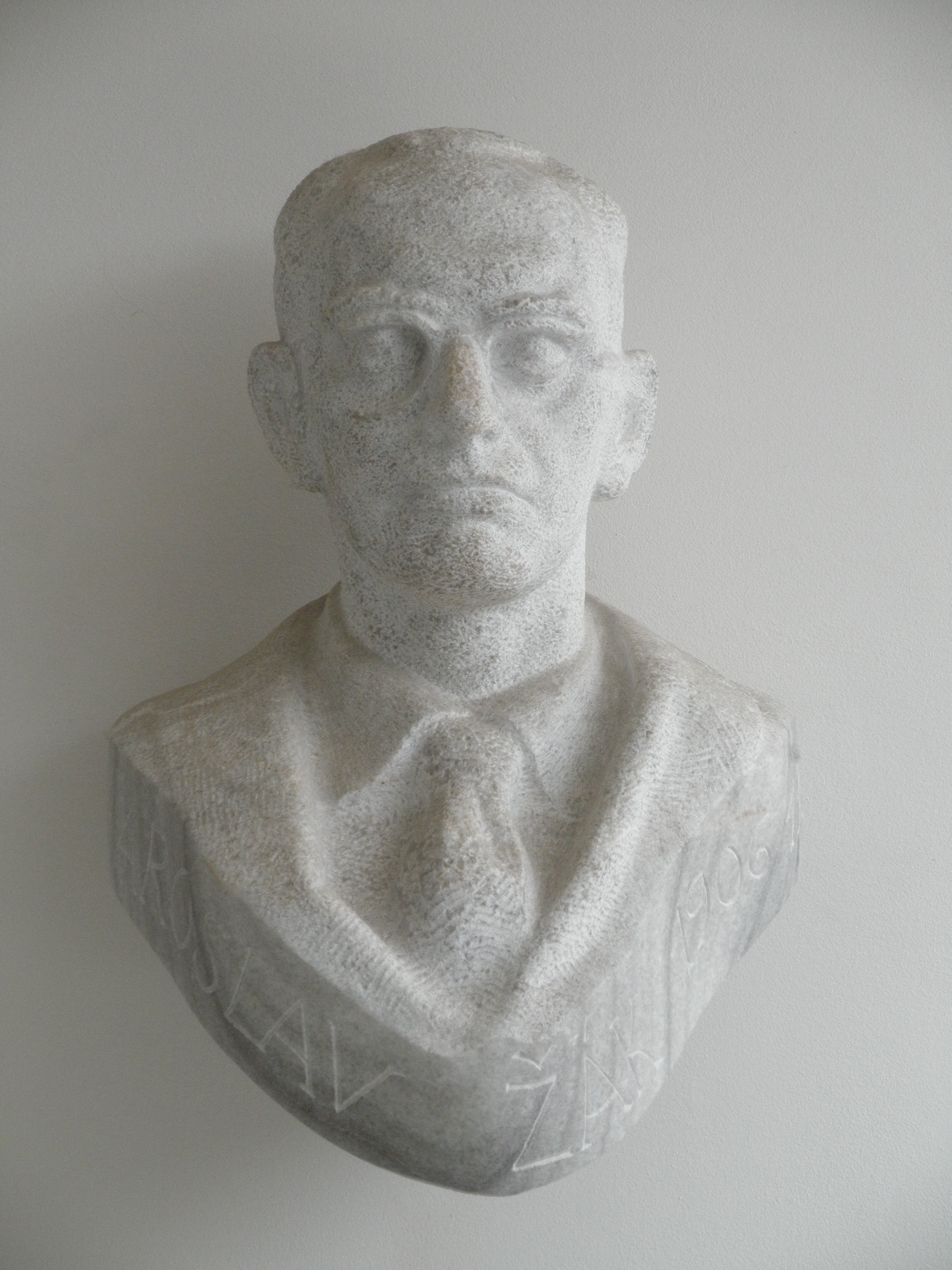 Bust of Jaroslav Žák at 49 ČSA square in Jaroměř. The bust was made from marble by Petr Novák in 2015.